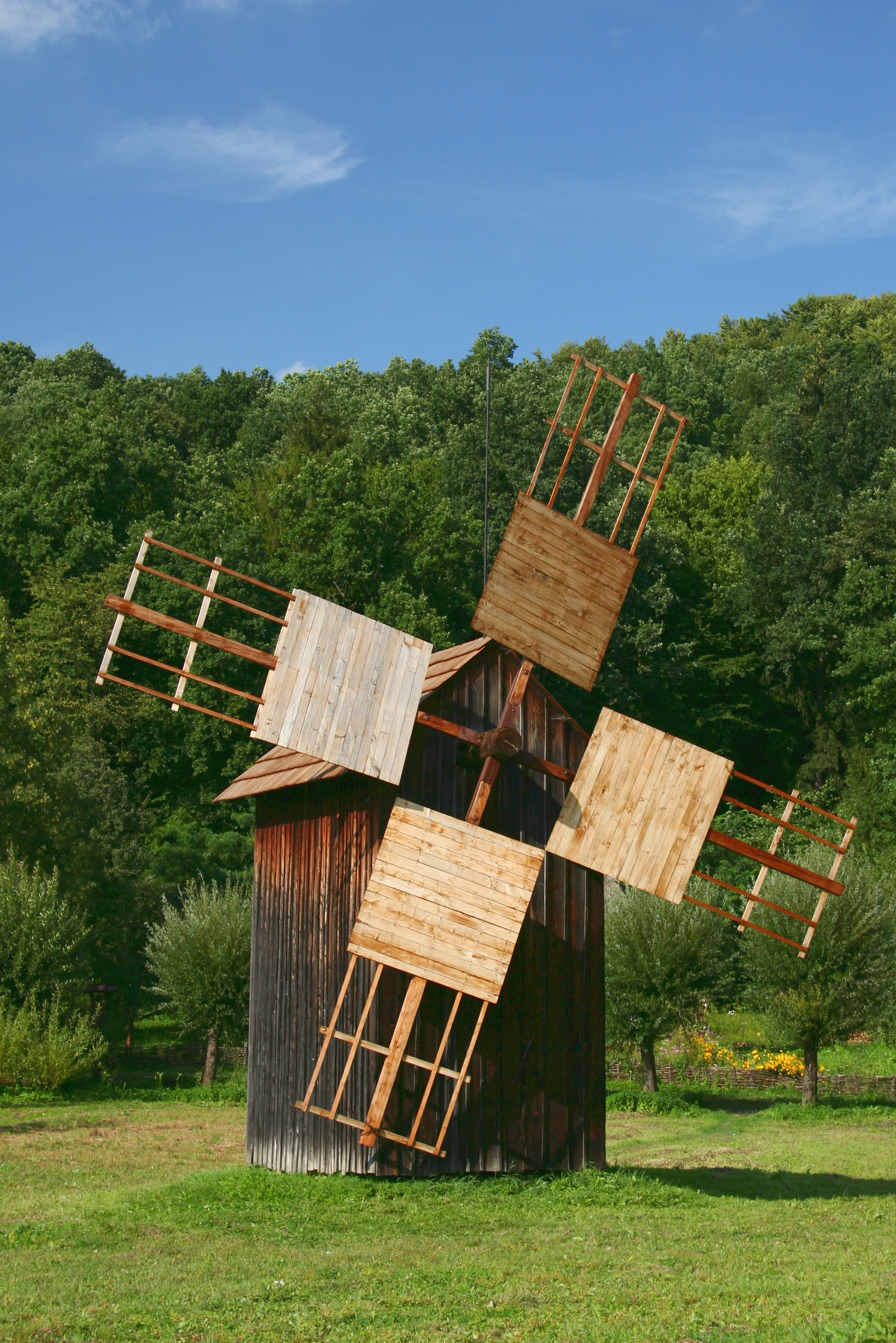 Open air museum in Sanok, windmill from Urzejowice